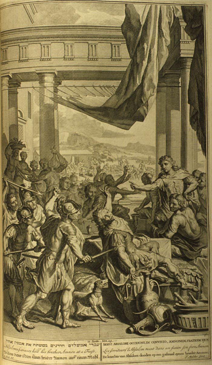 Figures de la Bible (1728) Absaloms Servants kill his brother Amnon at a Feast. II Samuel 13:29 And the servants of Absalom did unto Amnon as Absalom had commanded. Then all the king's sons arose, and every man gat him up upon his mule, and fled.